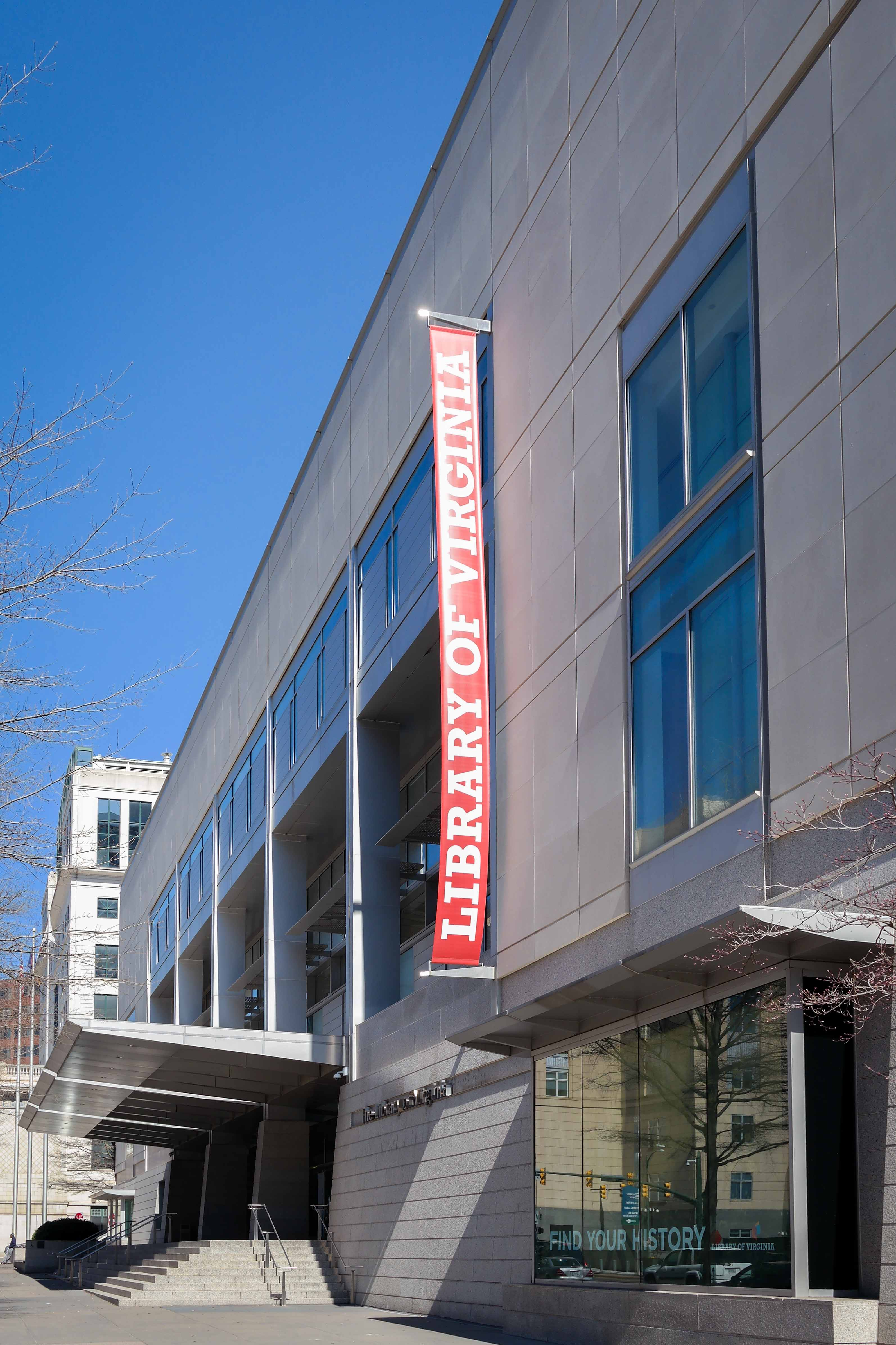 A view of the Library of Virginia in Richmond